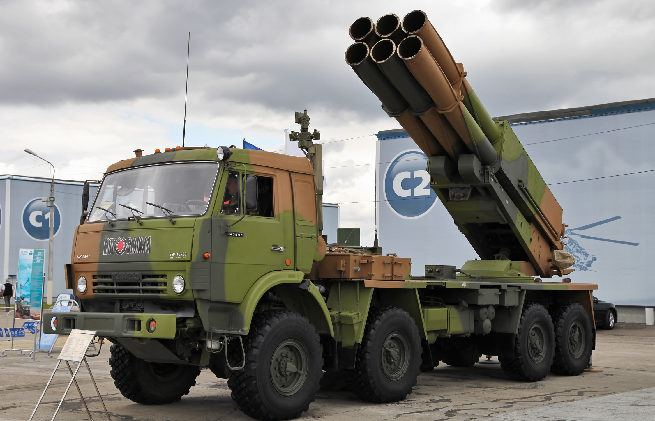 Combat vehicle 9A52-4 Smerch MLRS (Engineering technologies 2012 - Static displays)